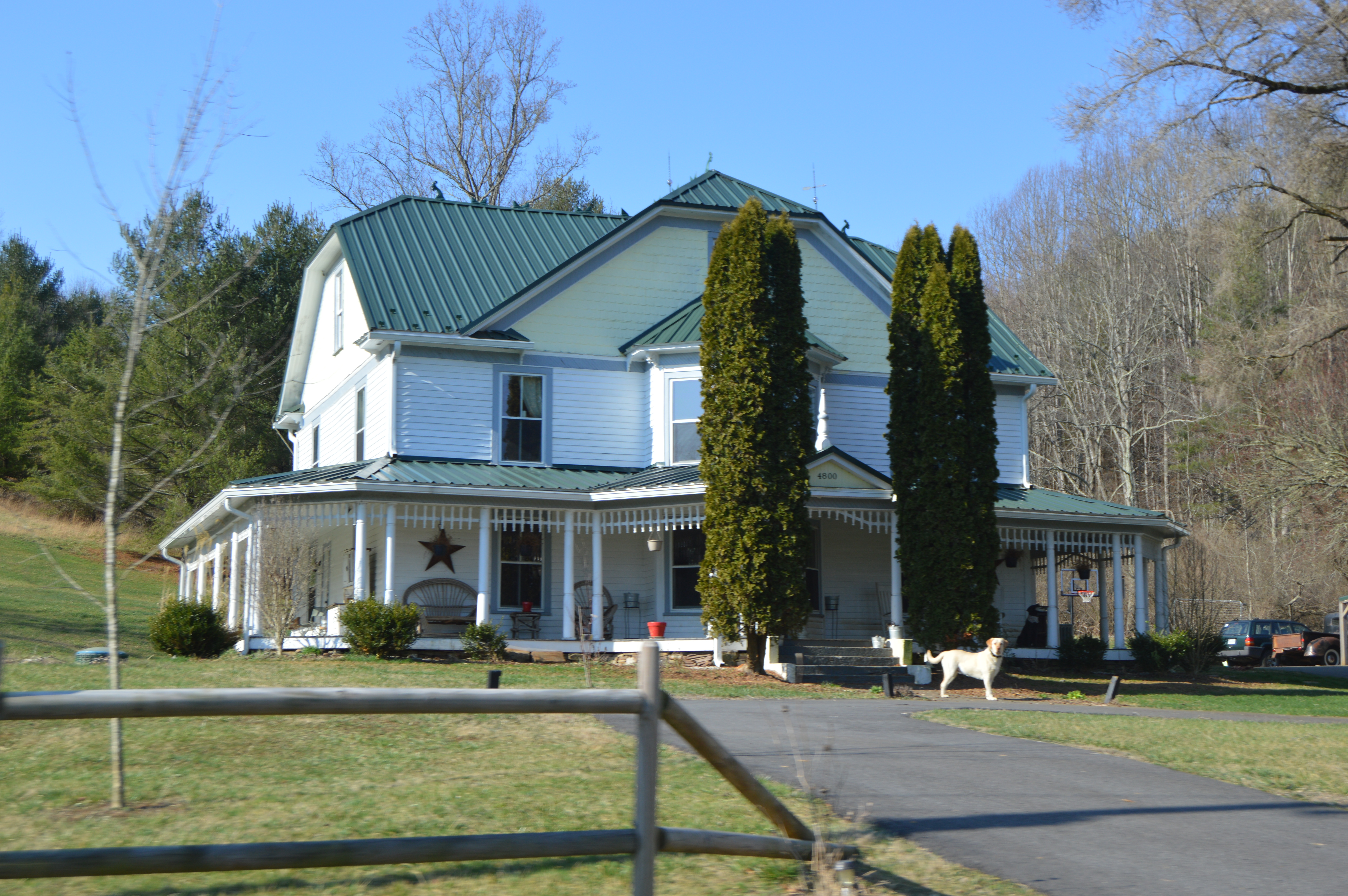 Front and eastern side of the Snake Creek Farmhouse, located on Snake Creek Road southeast of Hillsville in Carroll County, Virginia, United States. Built in 1910, it and the rest of the farmstead are listed on the National Register of Historic Places as a historic district.